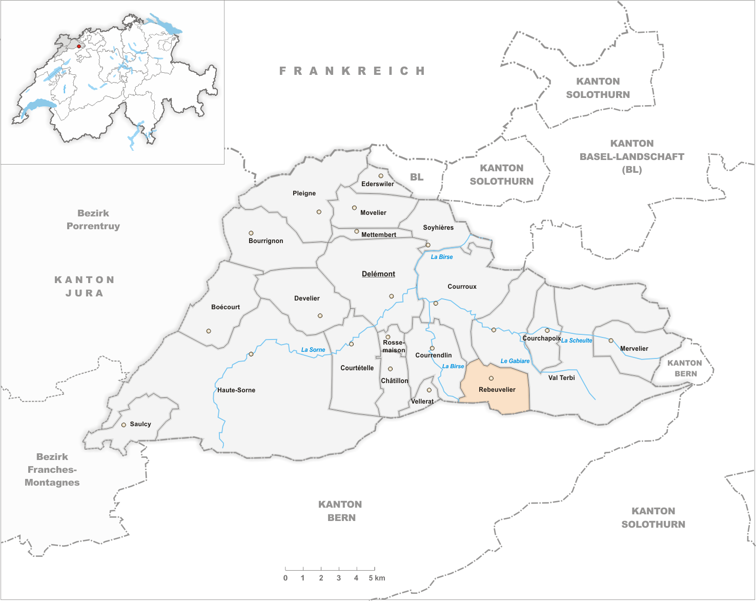 Municipality Rebeuvelier